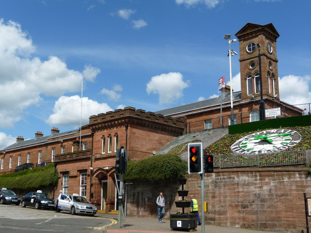 Kilmarnock Railway Station Kilmarnock's imposing red sandstone railway station buildings